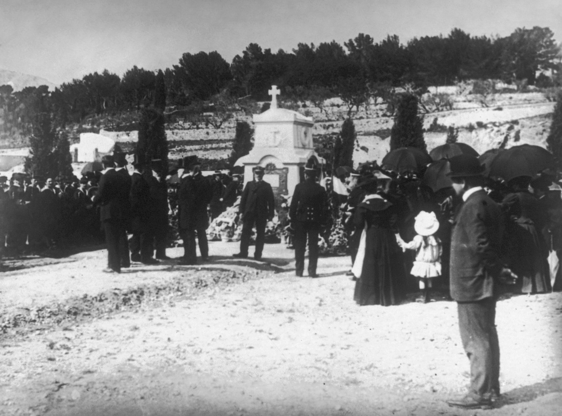 Inauguration of the monument to the victims of the battleship Iéna